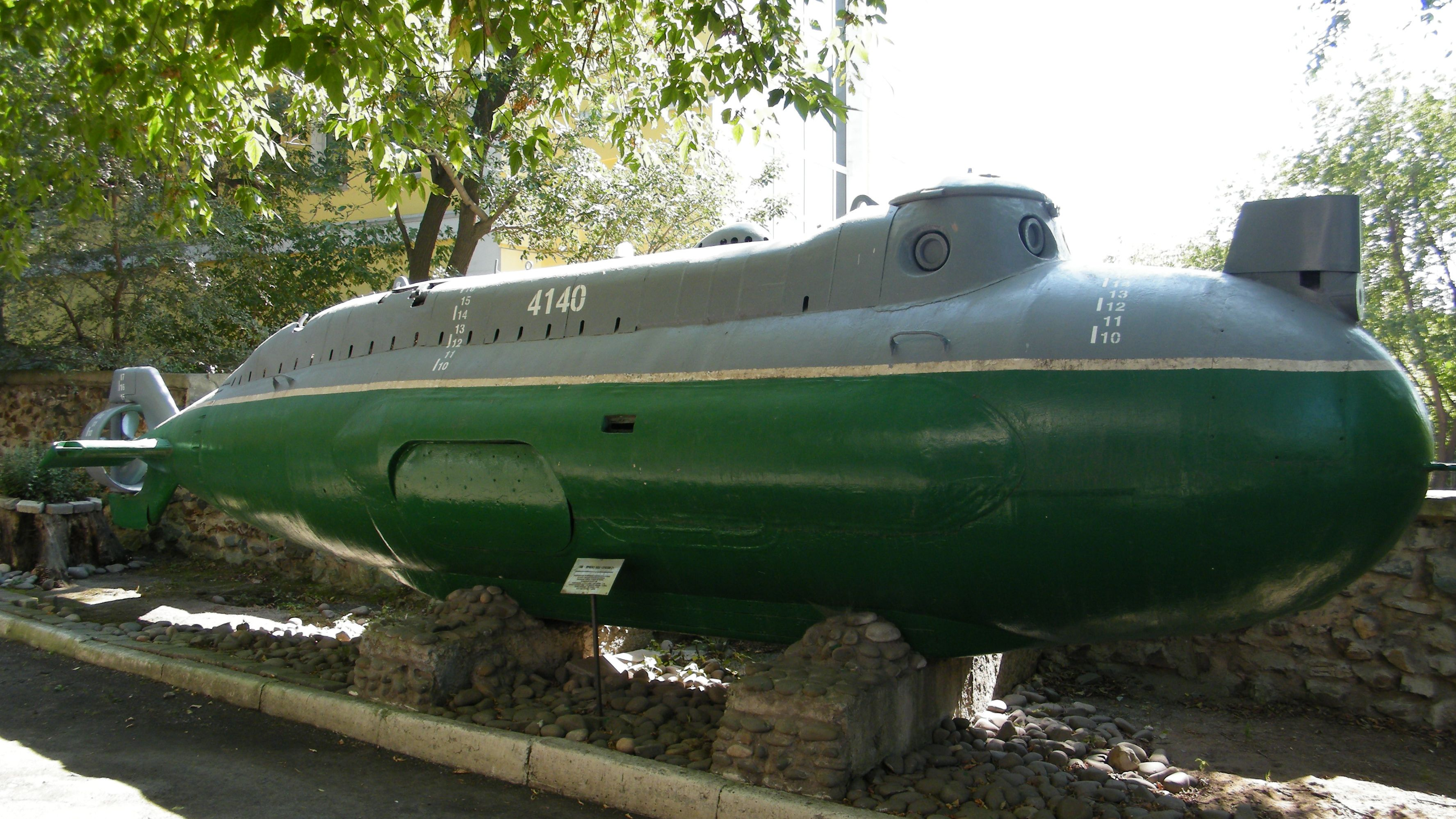 Triton-2 class submarines, Vladivostok.